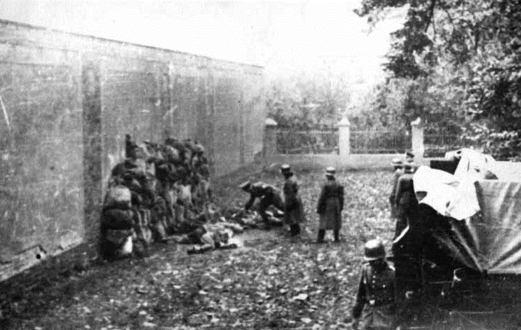 Germans murdered Polish civilians in Leszno, Poland dated 21 October 1939.